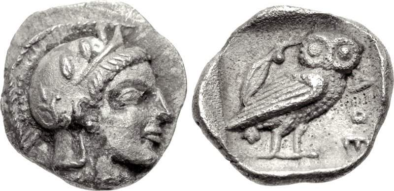 Athens, 454-404 BC. AR Obol (8mm, 0.69 g, 5h). Head of Athena right, wearing crested Attic helmet, decorated with three olive leaves over visor and a spiral palmette on the bowl, earring, and necklace / Owl standing right, head facing; olive sprig behind, AΘE to right; all within incuse square.